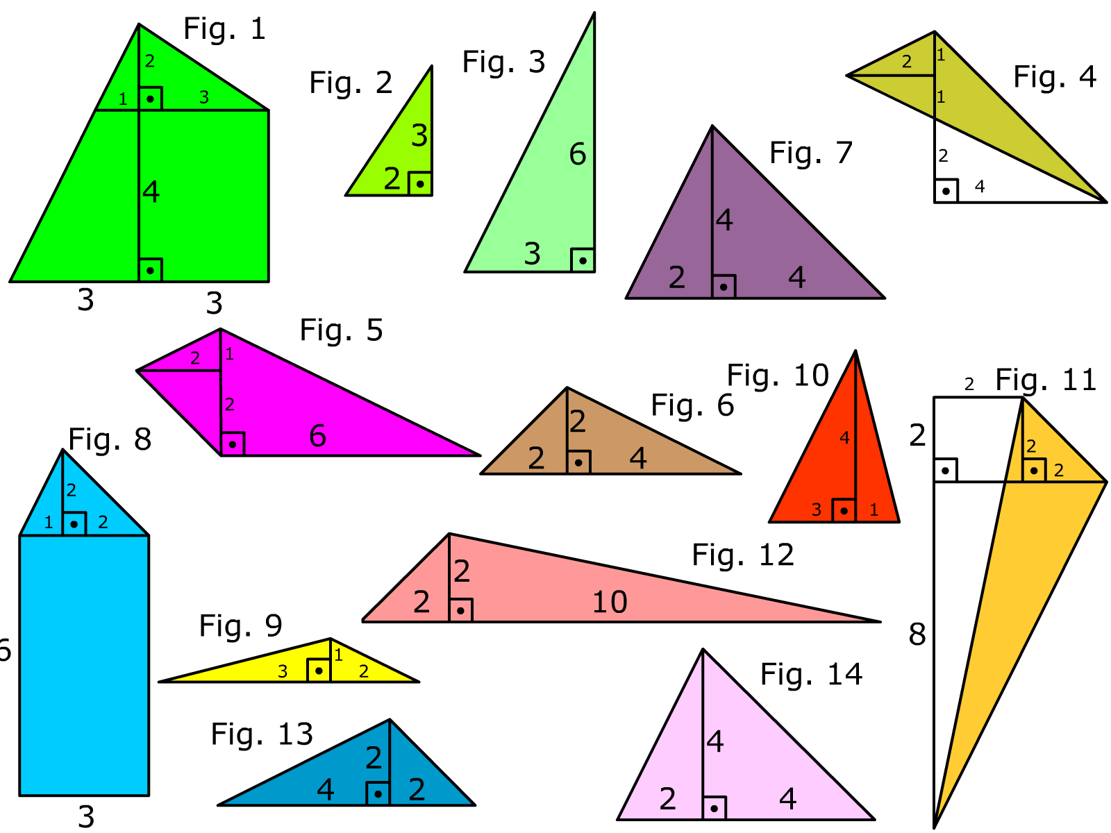 Stomachion